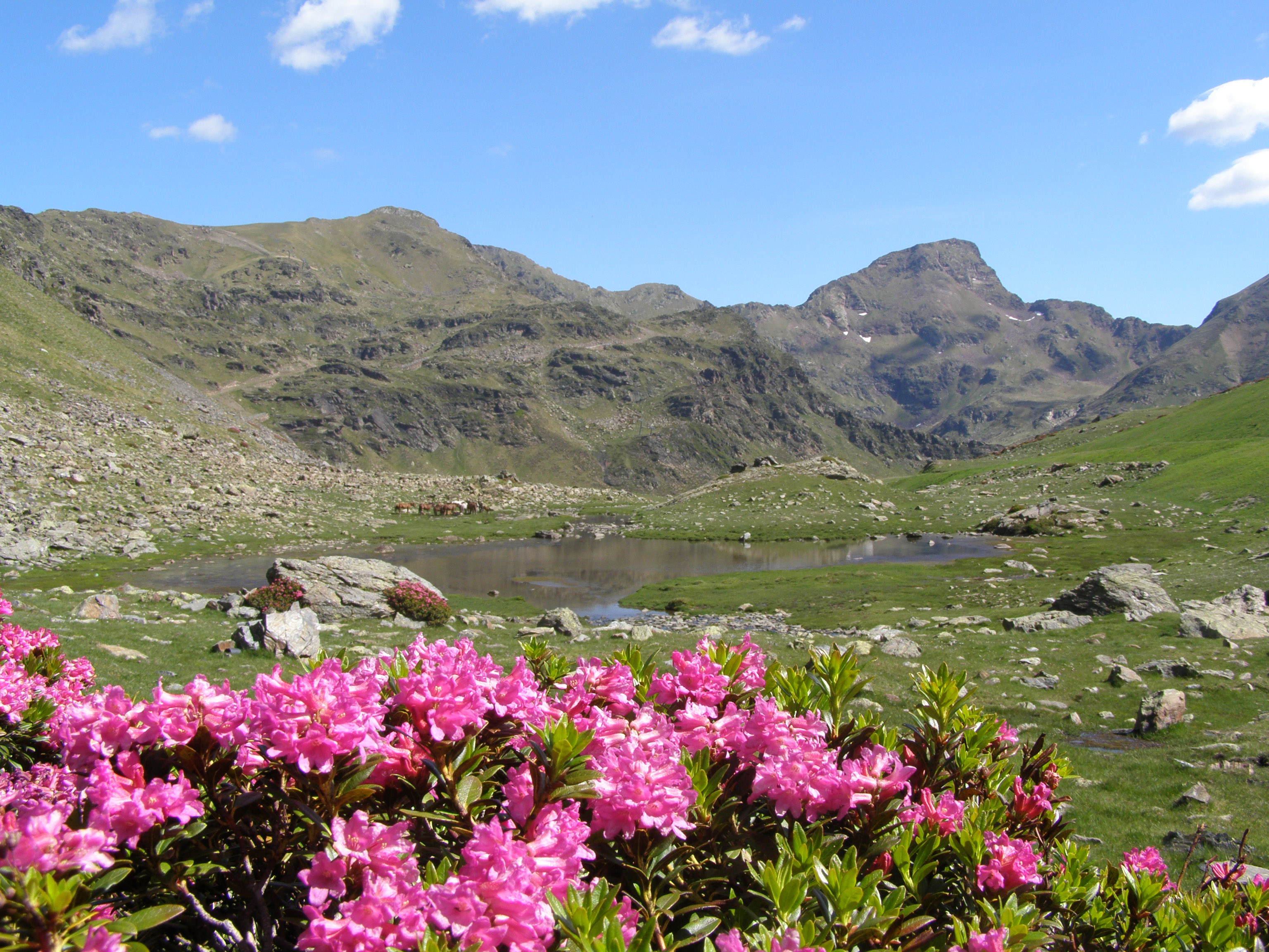 Arcalís and the Tristaina lake